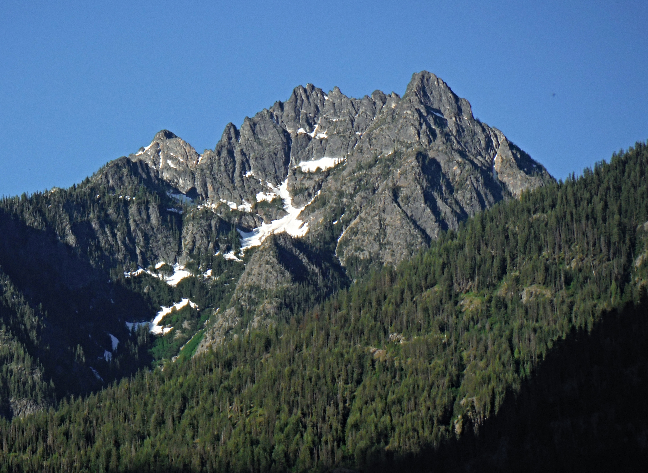 Castle Rock seen from Stehekin - Lake Chelan